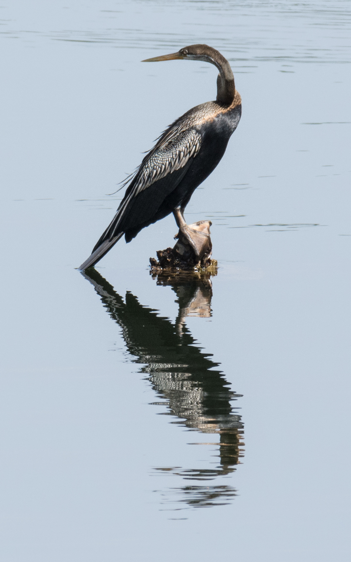 The Oriental darter or Indian darter (Anhinga melanogaster) malayalam - ചേരക്കോഴി